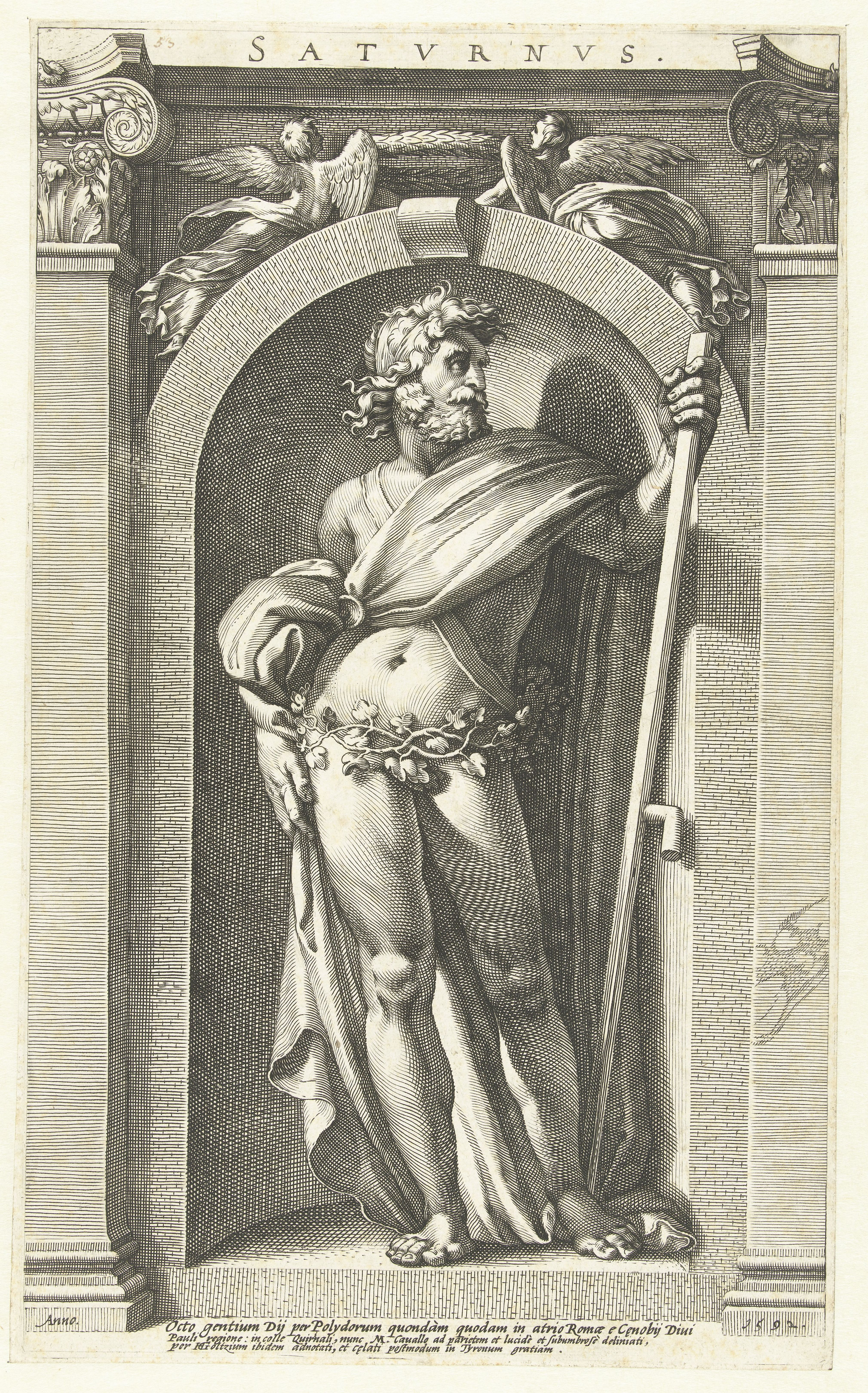 Saturnus. Copied by Hendrick Goltzius from an original fresco by Polydoro da Caravaggio.